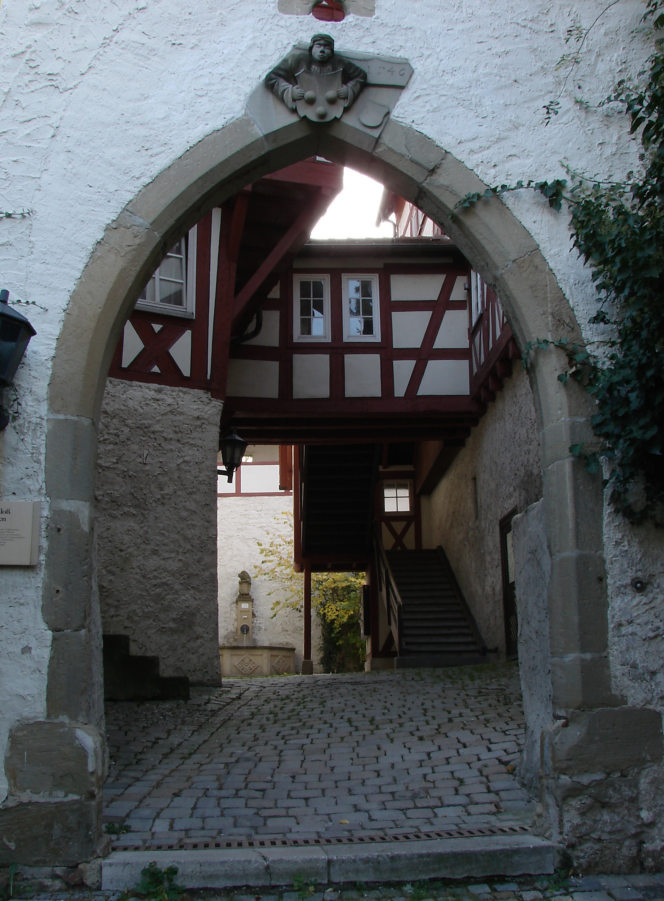 Freiberg am Neckar, Old Castle in the town part of Beihingen